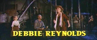 Cropped screenshot of the film How the West Was Won